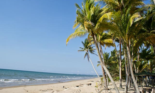 Hawaii Beach, Miri, Sarawak, Malaysia.